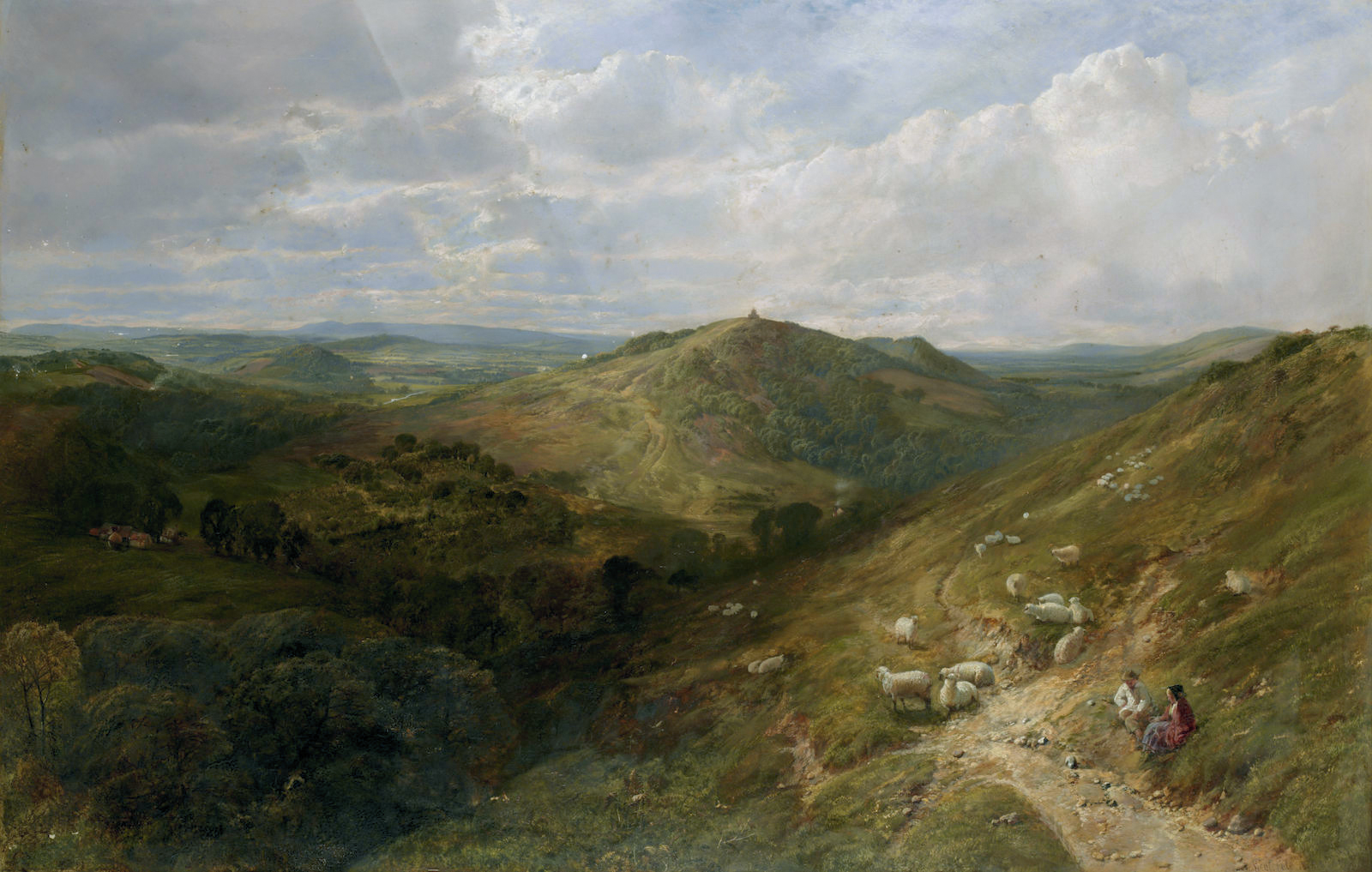 Landscape, possibly The Hog's Back, Guildford oil on canvas 67 x 101.5cm signed b.r.: Vicat Cole 1858(?)